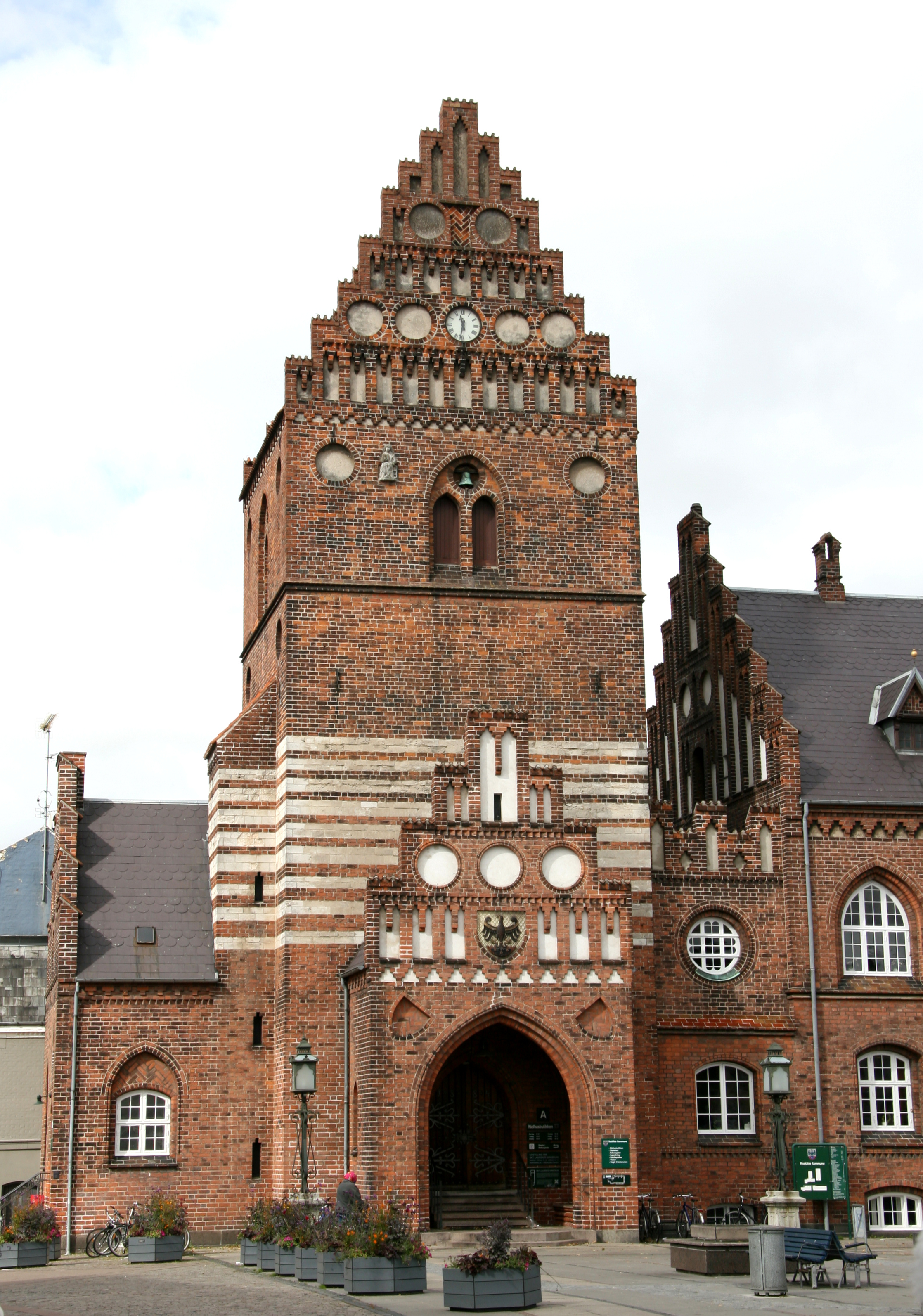 The remains of Sankt Laurentii Kirke in Roskilde, Denmark. The belfry now functions as the tower of Roskilde City Hall.